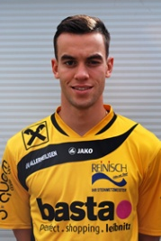 Patrick Stornig - Defender